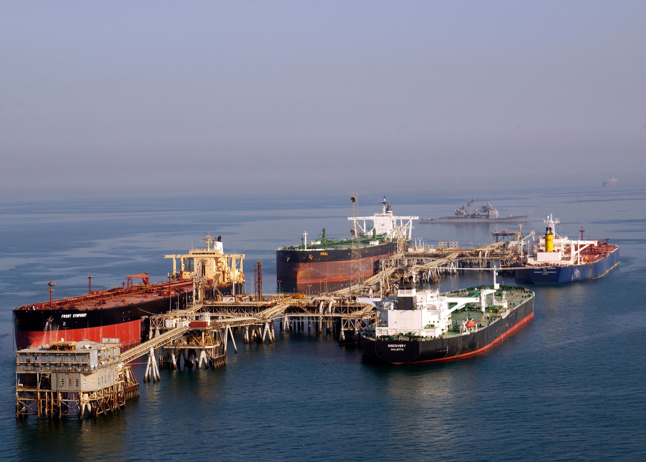 The guided missile cruiser USS Mobile Bay (CG 53) in the back conducts patrols near to the Iraqi Al Basra Oil Terminal (ABOT) in the Northern Persian Gulf. Mobile Bay is a part of USS Essex (LHD 2) Expeditionary Strike Group Three (ESG-3) currently on deployment in support of Operation Iraqi Freedom (OIF). The tankers include "Ural" (IMO 9183934), "Discovery" (IMO 9234642), and "Front Symphony" (IMO 9249324)